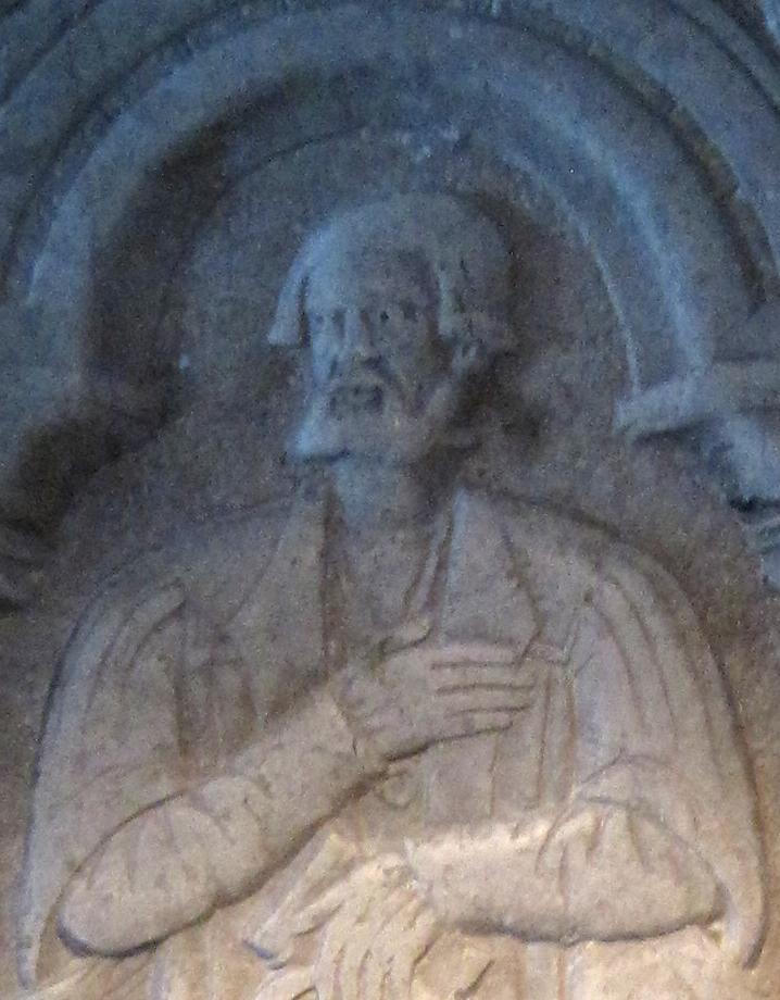 Ledger stone depicting Torben Bille (died 1553), the last catholic archbishop of Lund (1532-1536). The stone is placed in the crypt of Lund Cathedral.